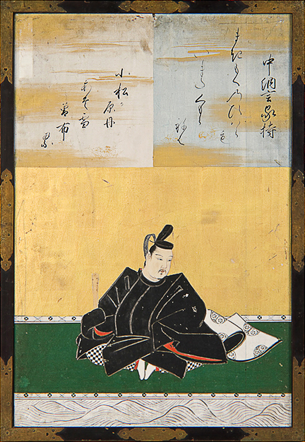 Sanjūrokkasen-gaku (Thirty-six Poetry Immortals framed picture) #5: Chūnagon Yakamochi (Ōtomo no Yakamochi)